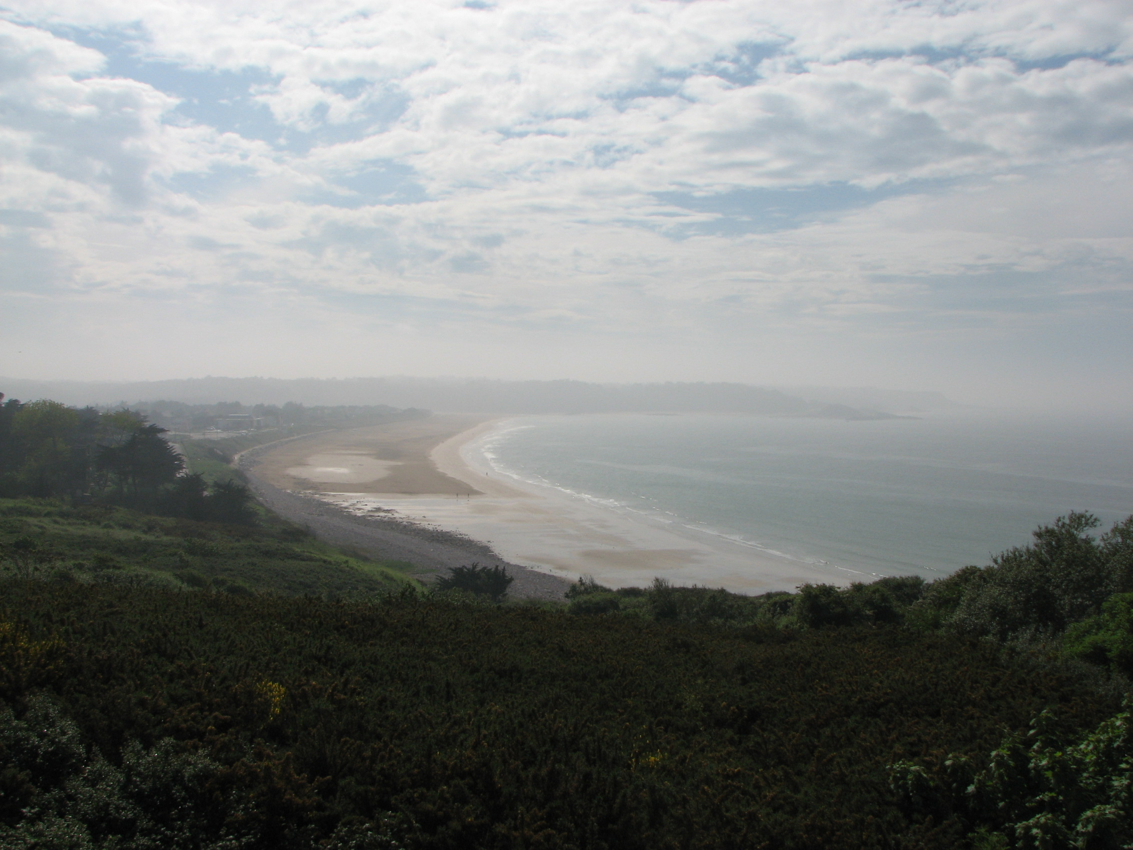 La Grande Plage des Sables-d'Or-les-Pins The great beach of Sables-d'Or-les-Pins (Britanny, France)